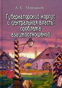 Minakov AS "Governor housing and central government: the problem of the relationship"